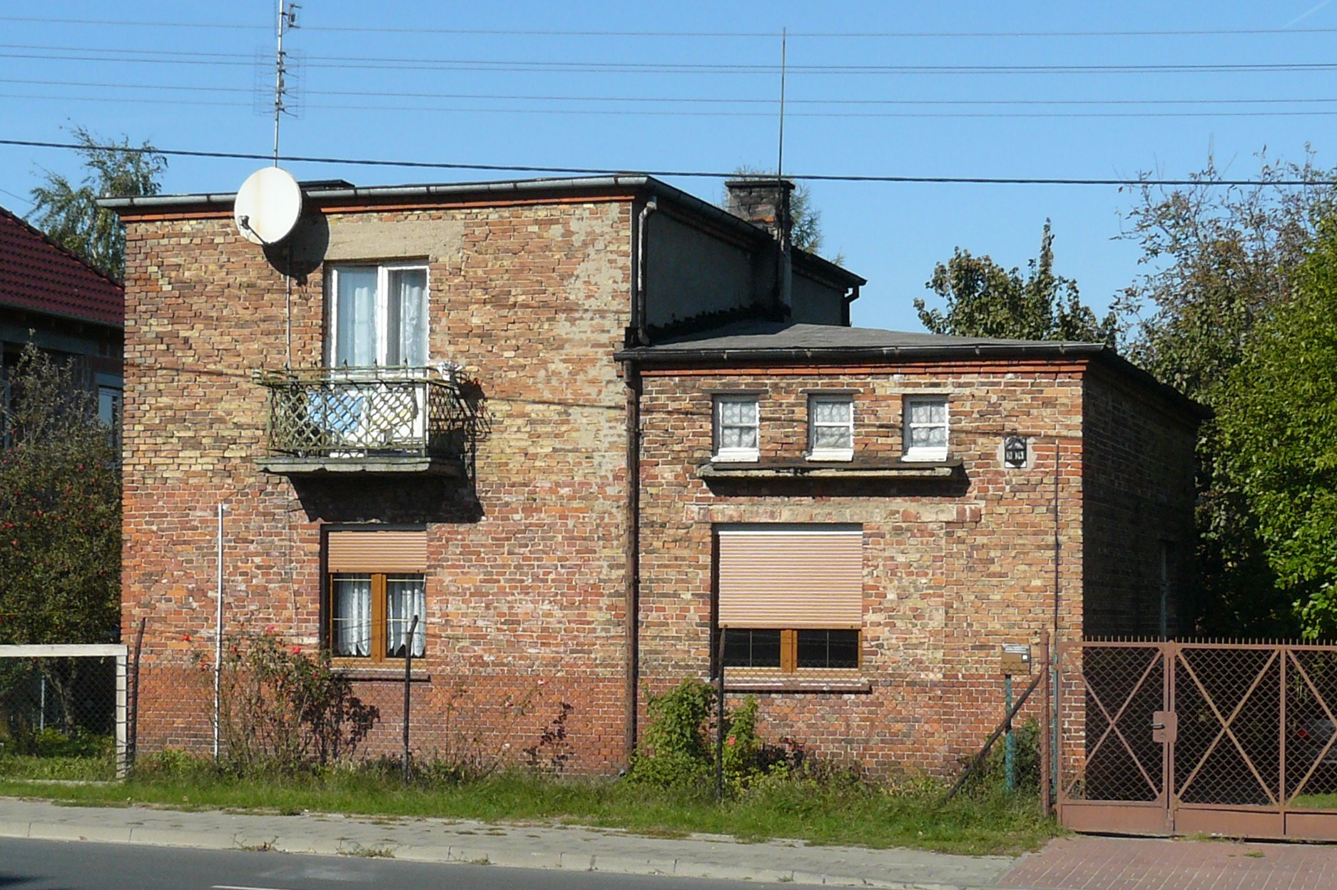 Sianowska street, Poznan.